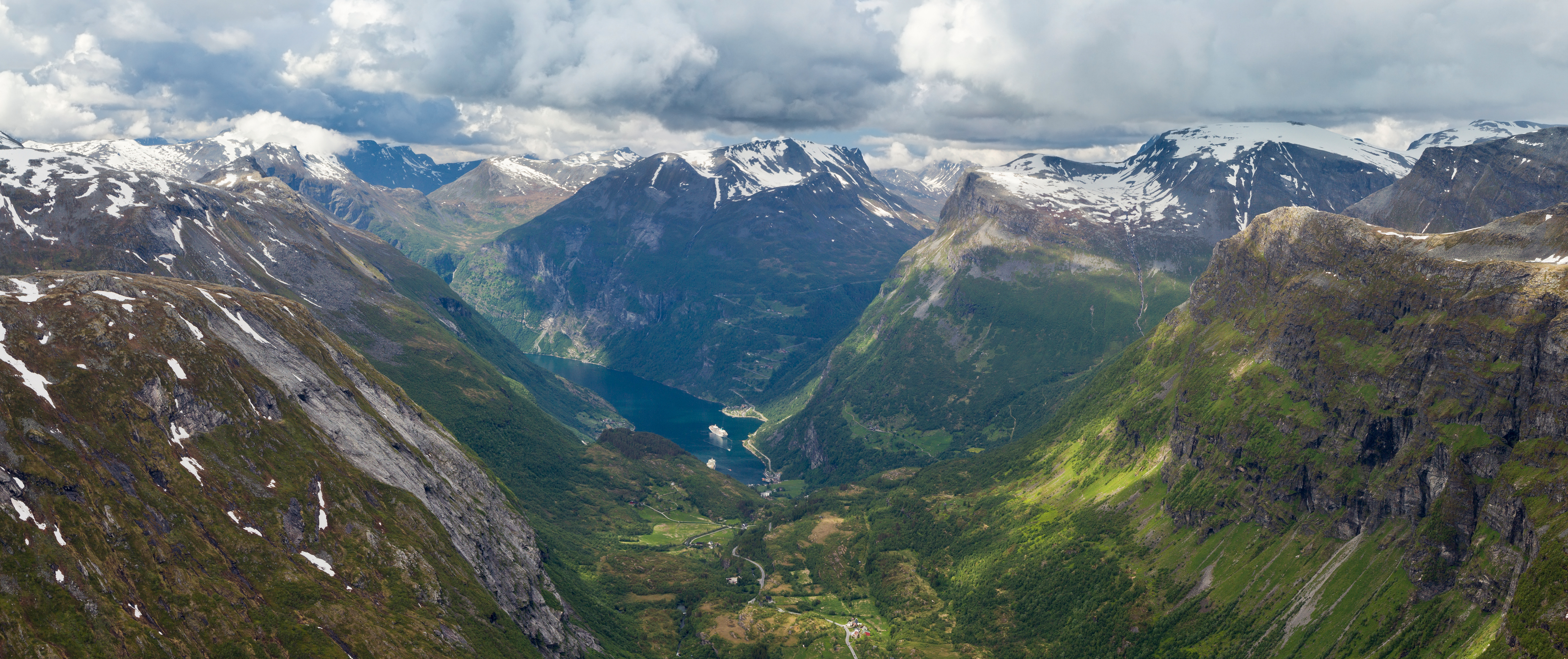 A view towards Geirangerfjorden and Geiranger from the summit of Dalsnibba mountain in Stranda, Møre og Romsdal, Norway in 2013 June. The photography location on Dalsnibba mountain is 1,476 meters above the sea level.